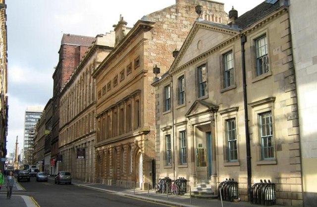 Tobacco Merchant's House, 42 Miller Street Restored by Glasgow Building Preservation Trust in 1995, this pretty little classical house is the last surviving tobacco laird's house left standing in the Merchant City. Badly altered and ruinous when the Trust acquired it, the restored building now provides a home for many of the City's leading architectural and amenity organisations including GBPT itself and the Scottish Civic Trust. Across the narrow wynd is the Italianate facade of the original Stirling Library by James Smith.